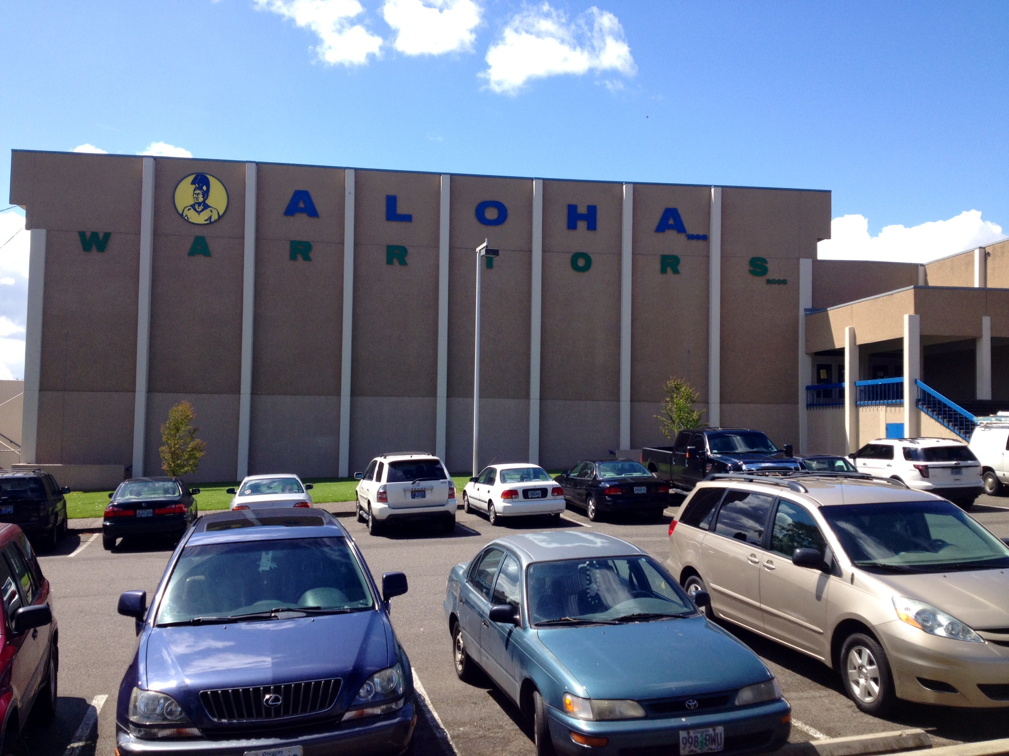 front of high school